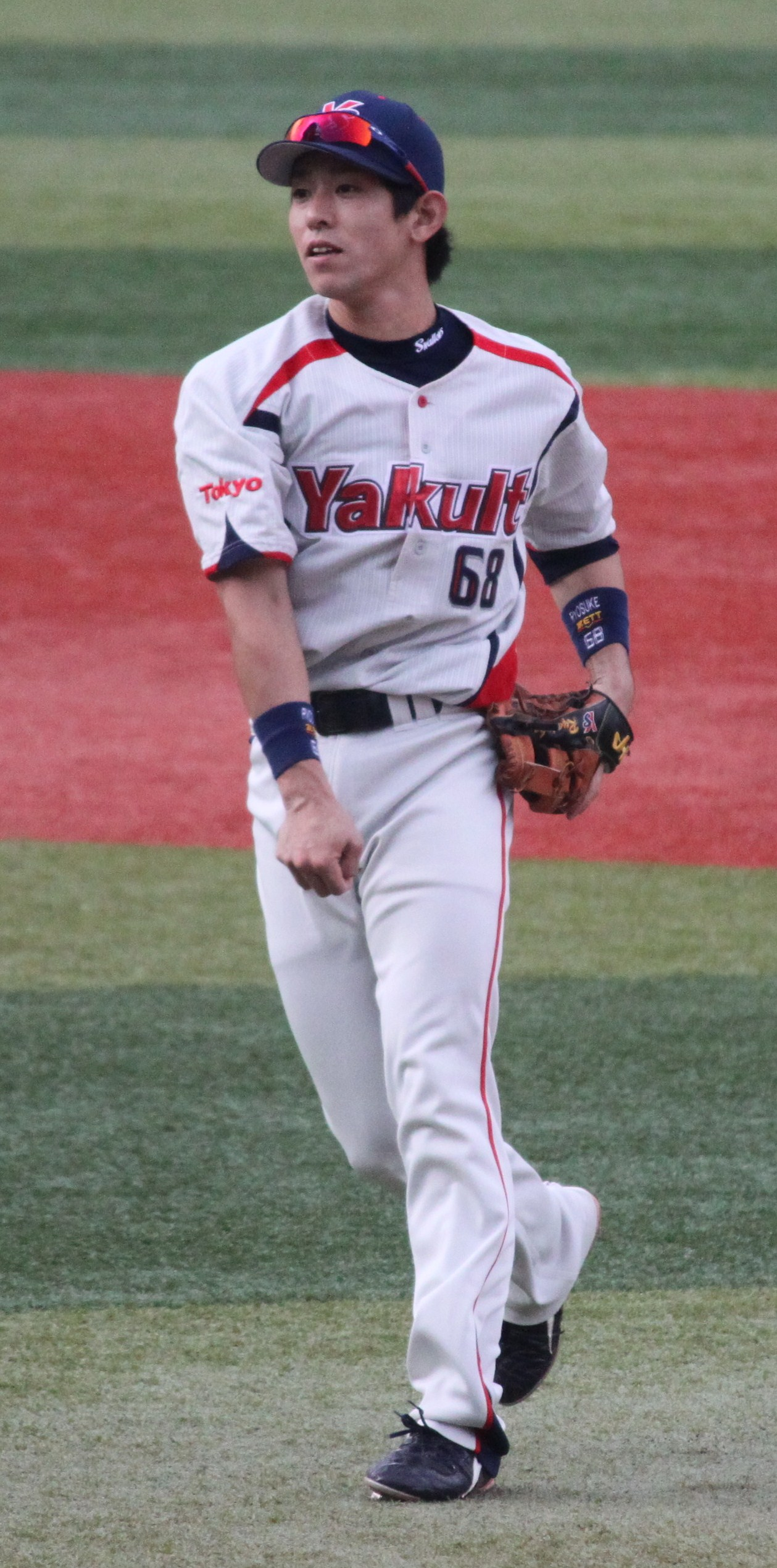 Ryosuke Morioka, infielder of the Tokyo Yakult Swallows, at Yokohama Stadium.